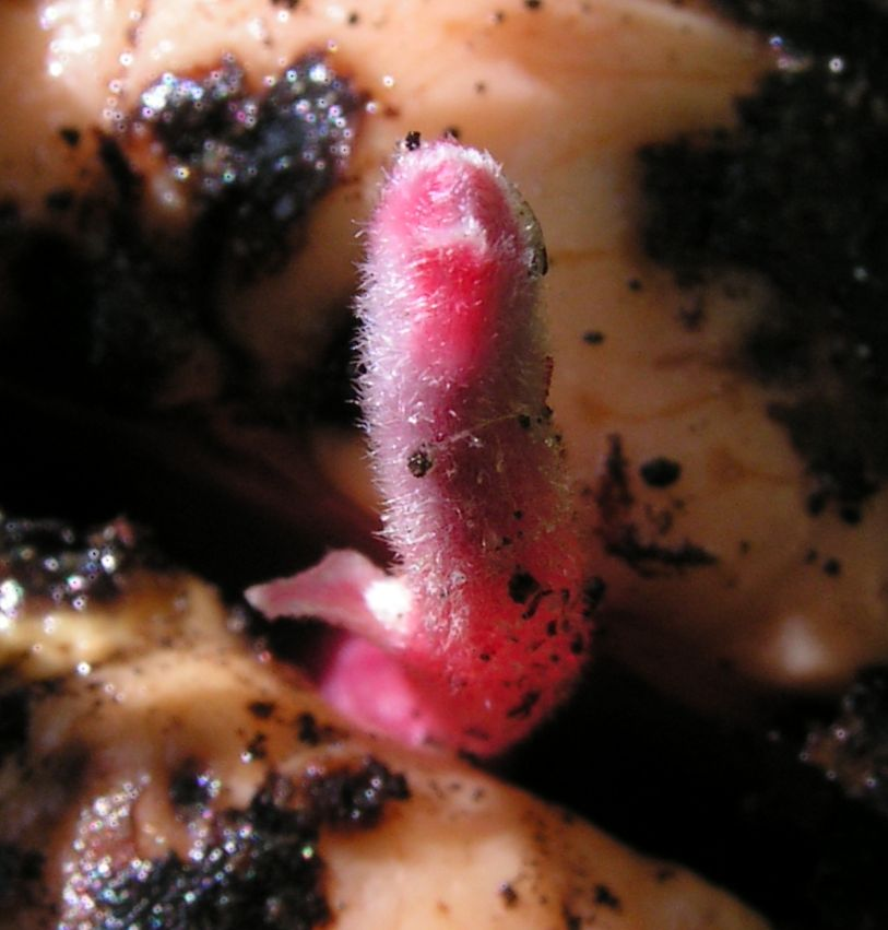 The seedling of avocado (Persea americana).